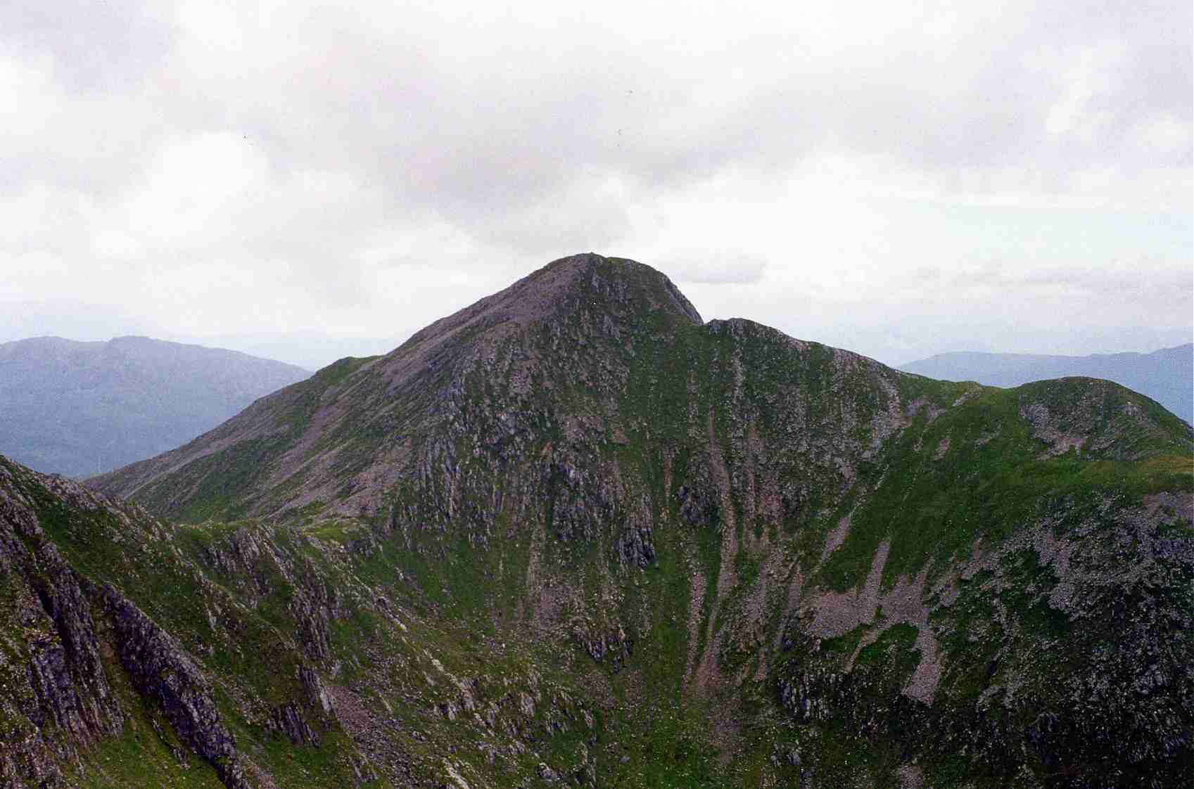 Personal photograph taken by Mick Knapton